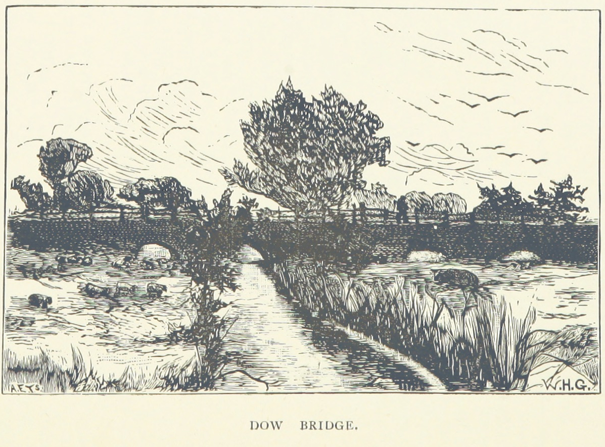 Dow Bridge